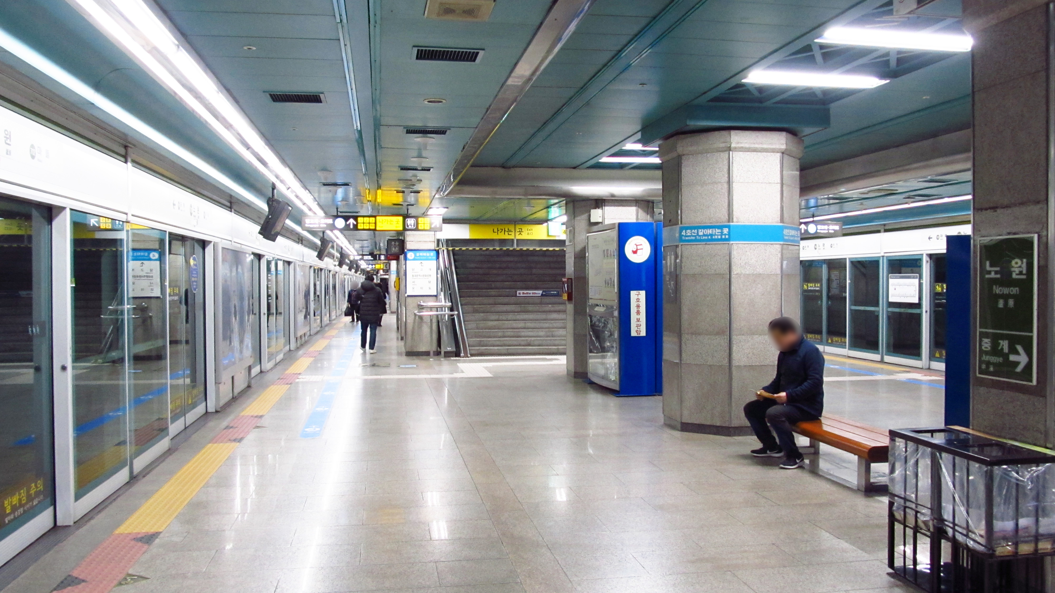 The platform at Nowon Station on Seoul Subway Line 7 in Nowon-gu, Seoul, Republic of Korea(South Korea)